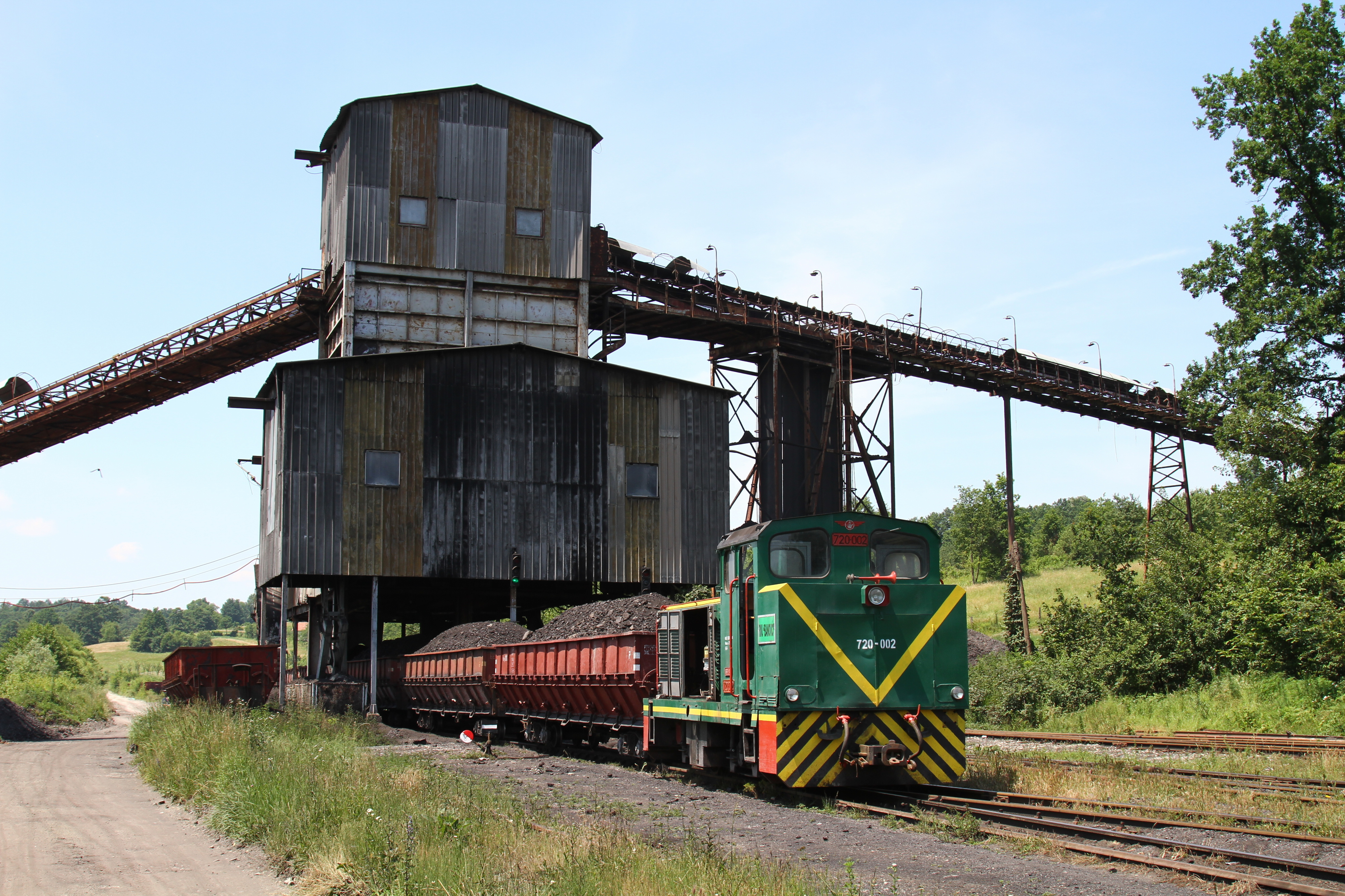 720-002 shunting a rake of coal wagons at Grivice loading point.